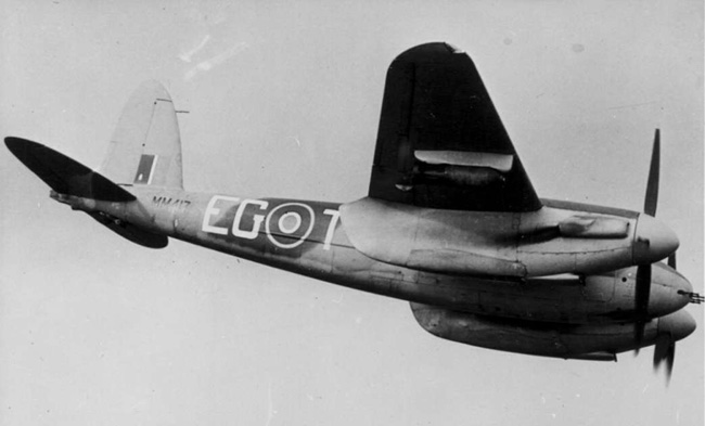 Mosquito of 464 /467 Sqns RAF